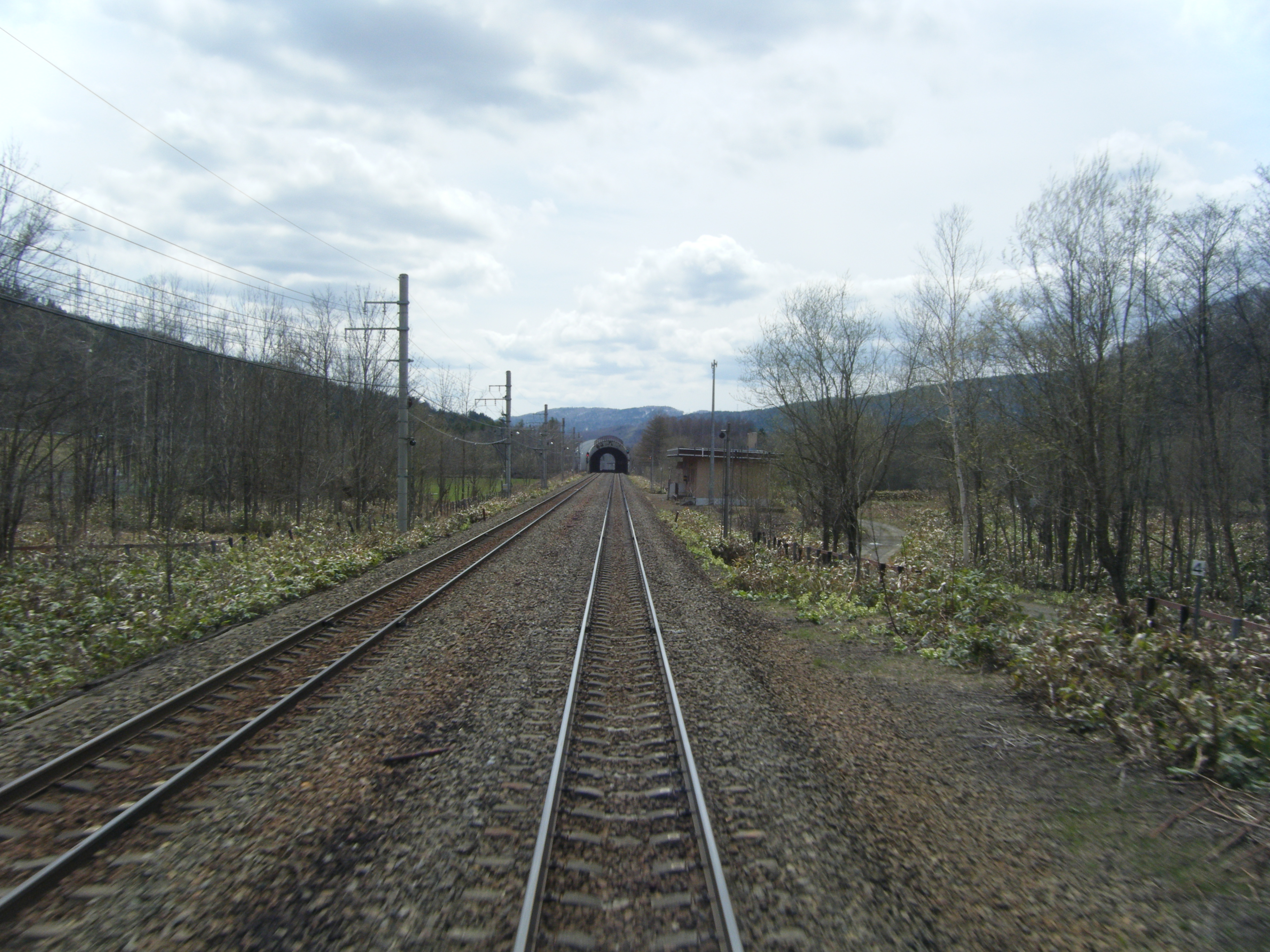 Higashi-Shimukappu Signal Base viewed from Super Ozora train